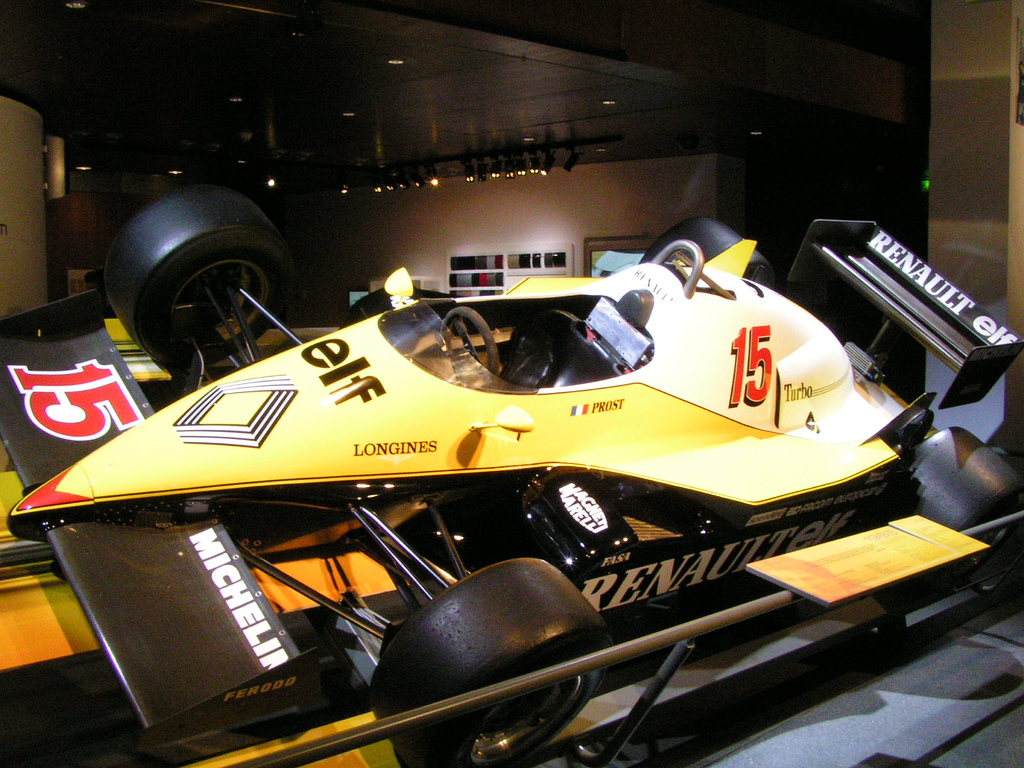 Alain Prost's Renault F1 (competed in 1983) in a autosport museum in Paris